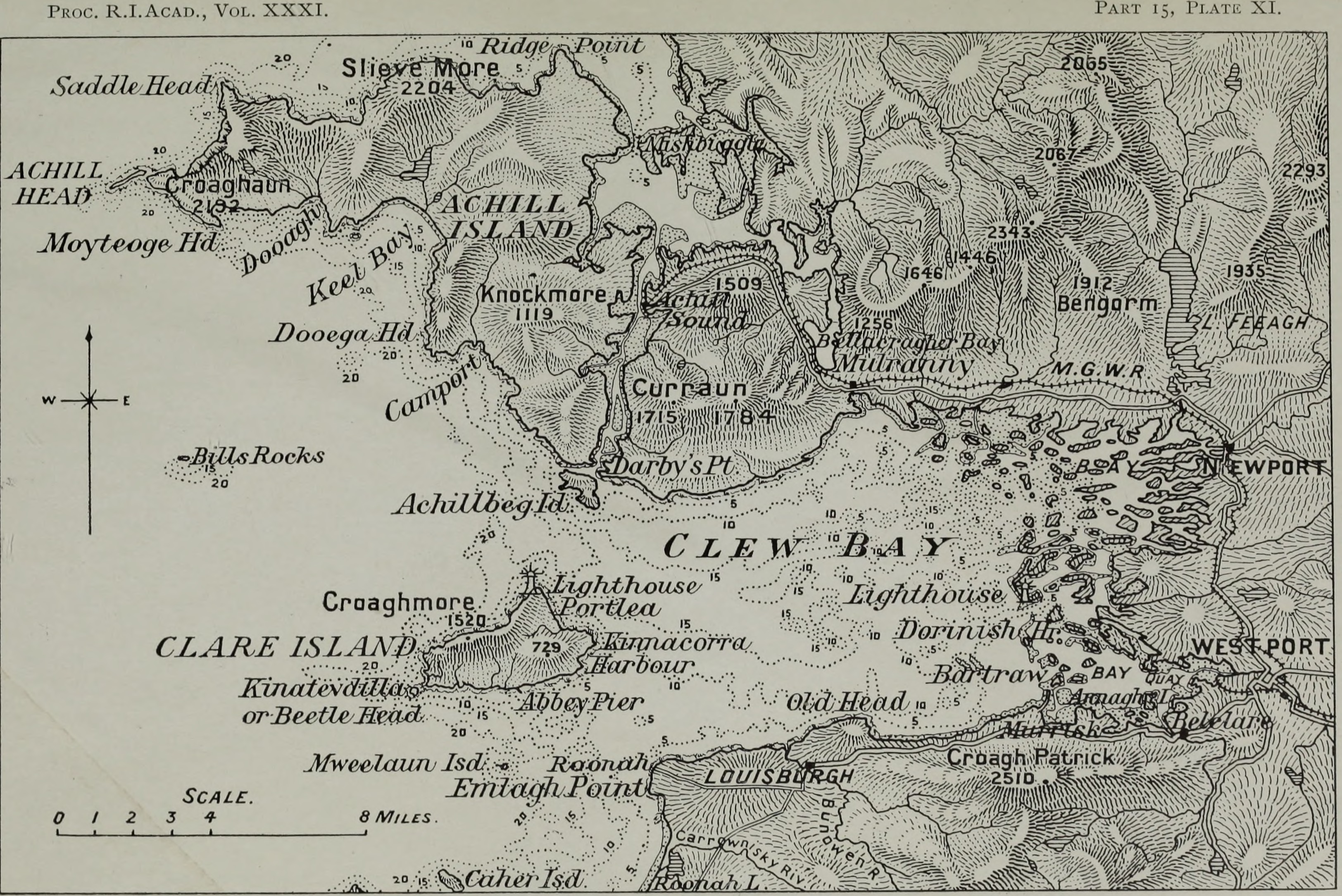 Title: Clare Island survey Year: 1911 (1910s) Authors: Praeger, R. Lloyd (Robert Lloyd), 1865-1953; Cotton, A. D. (Arthur Disbrowe), b. 1879; Royal Irish Academy Subjects: Natural history; Spermatophyta; Pteridophyta; Marine algae Publisher: Dublin : Hodges, Figgis ; London : Williams & Norgate Text Appearing Before Image: ' Text Appearing After Image: u ^